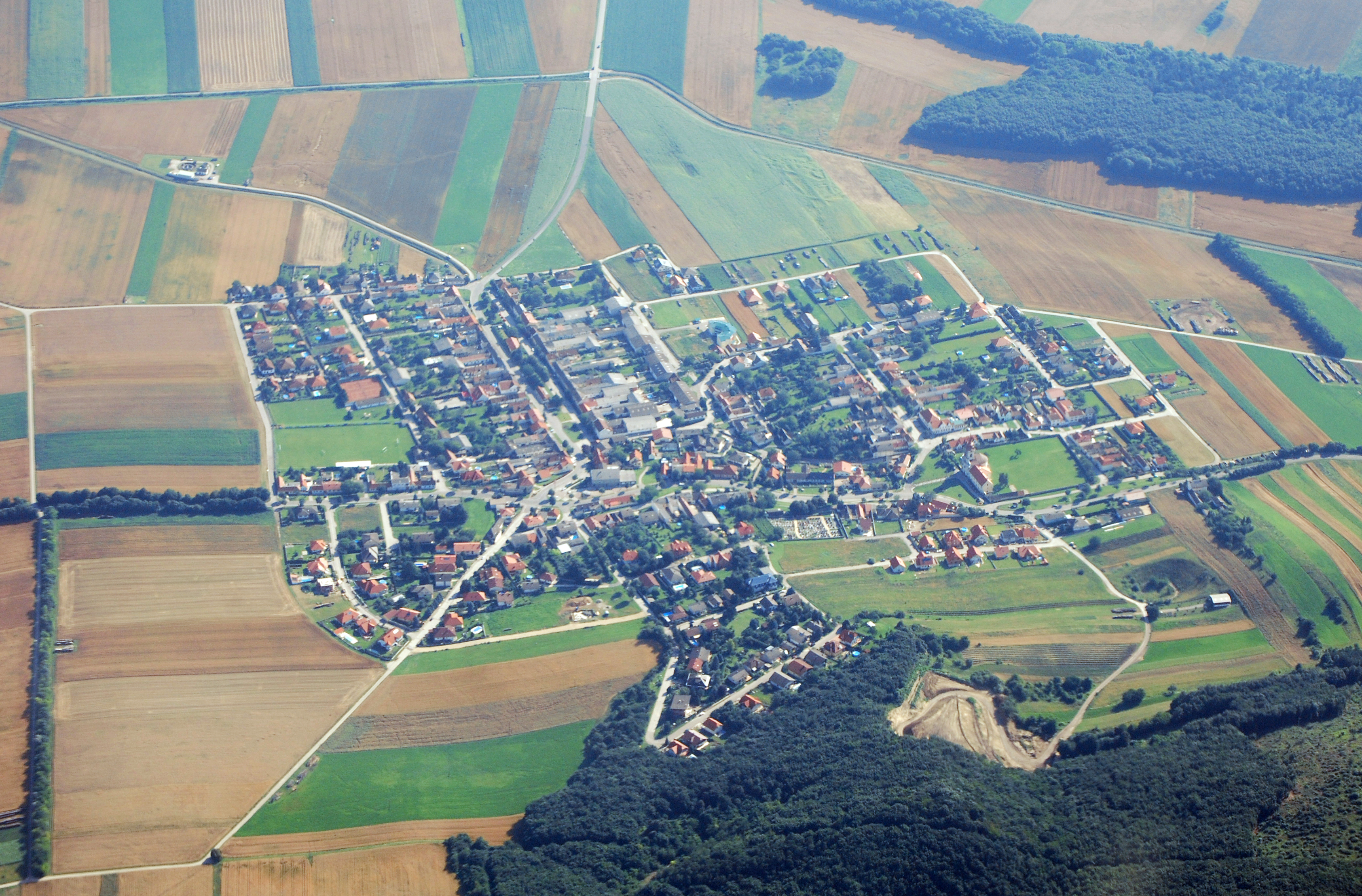 Stotzing from W